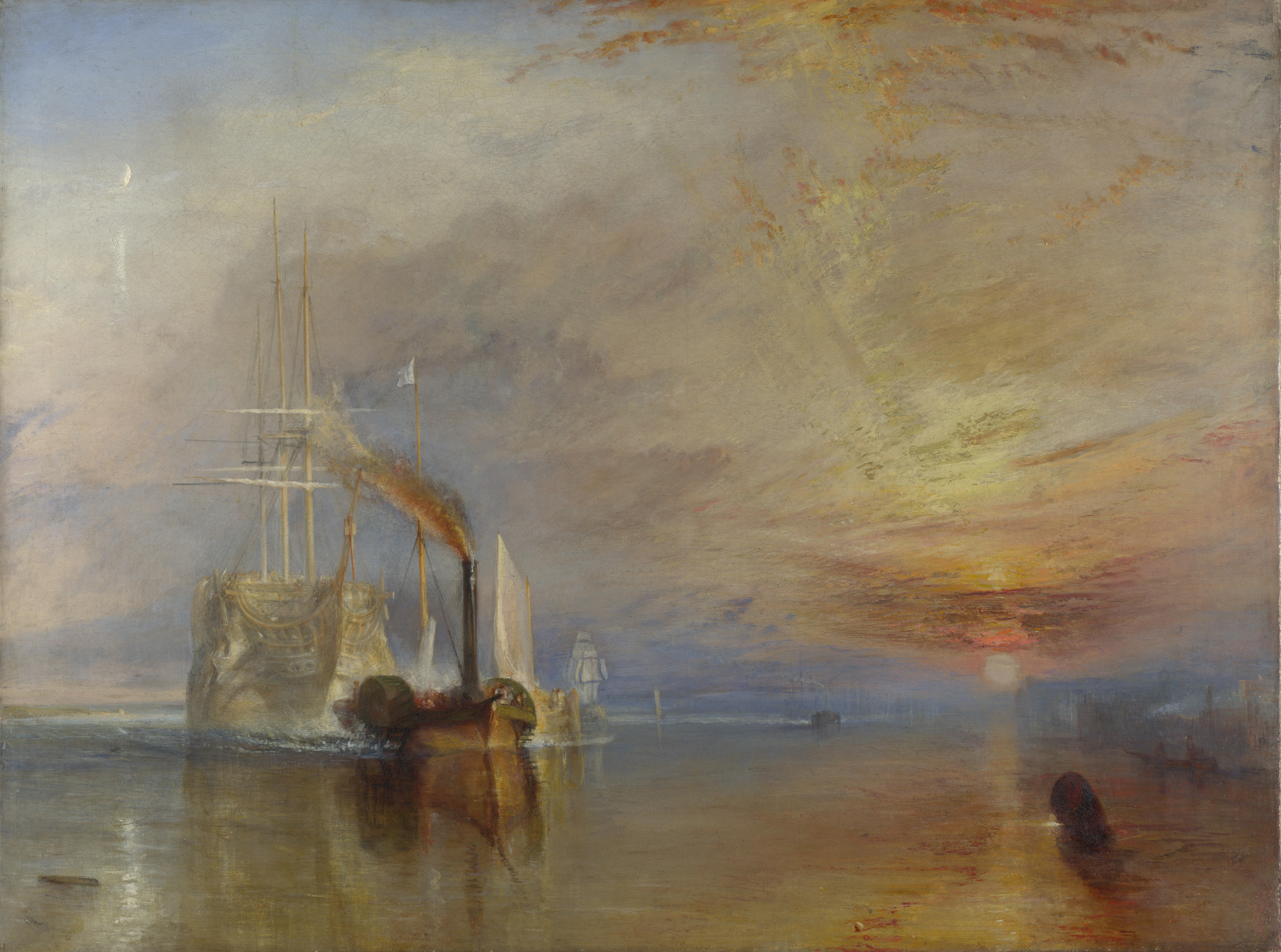 The Fighting Temeraire. 1839, by Joseph Mallord William Turner. Measures 3' x 4'